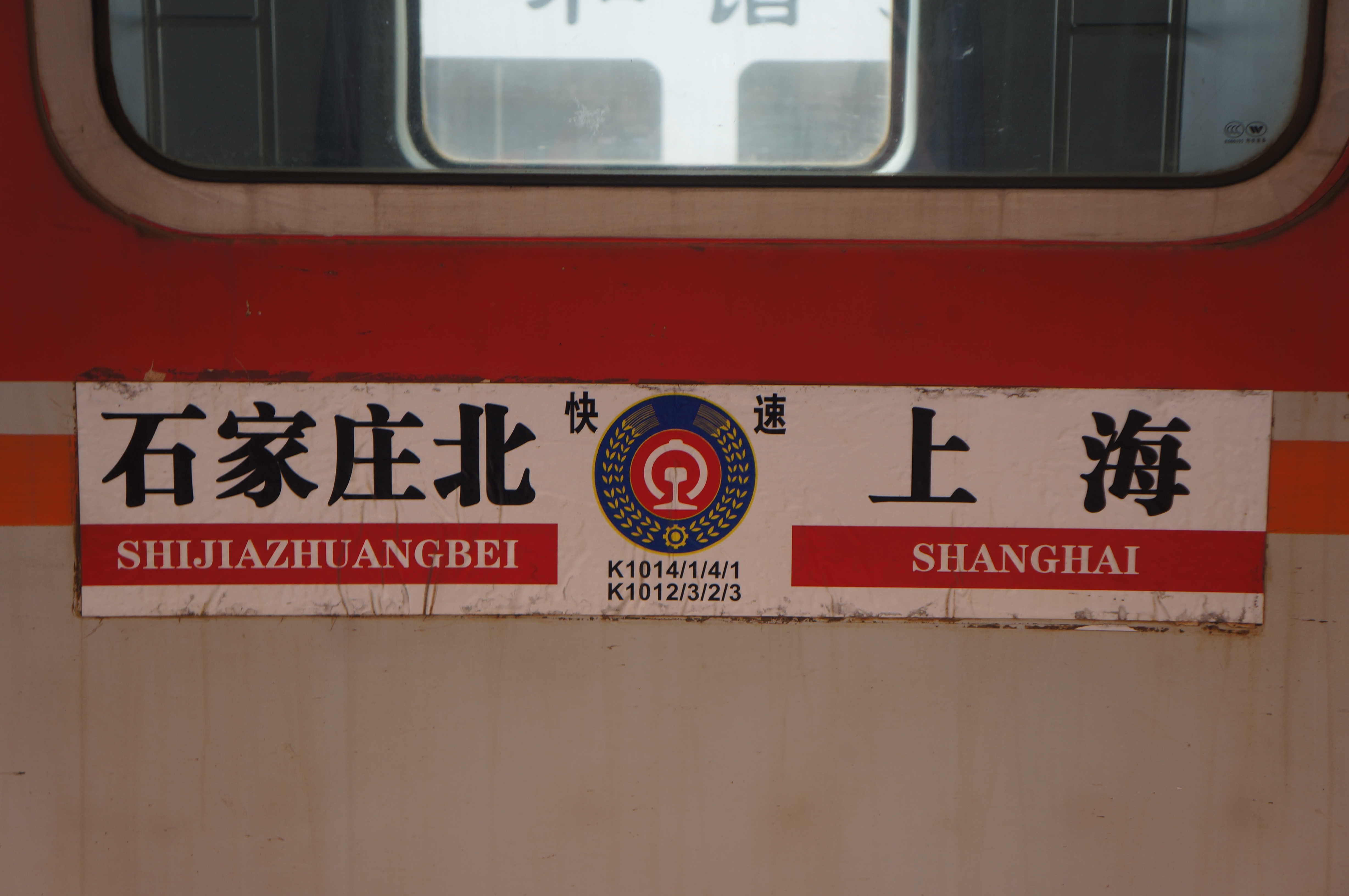 K1011 2 3 4 (Shijiazhuangbei to Shanghai) infoboard in 201704